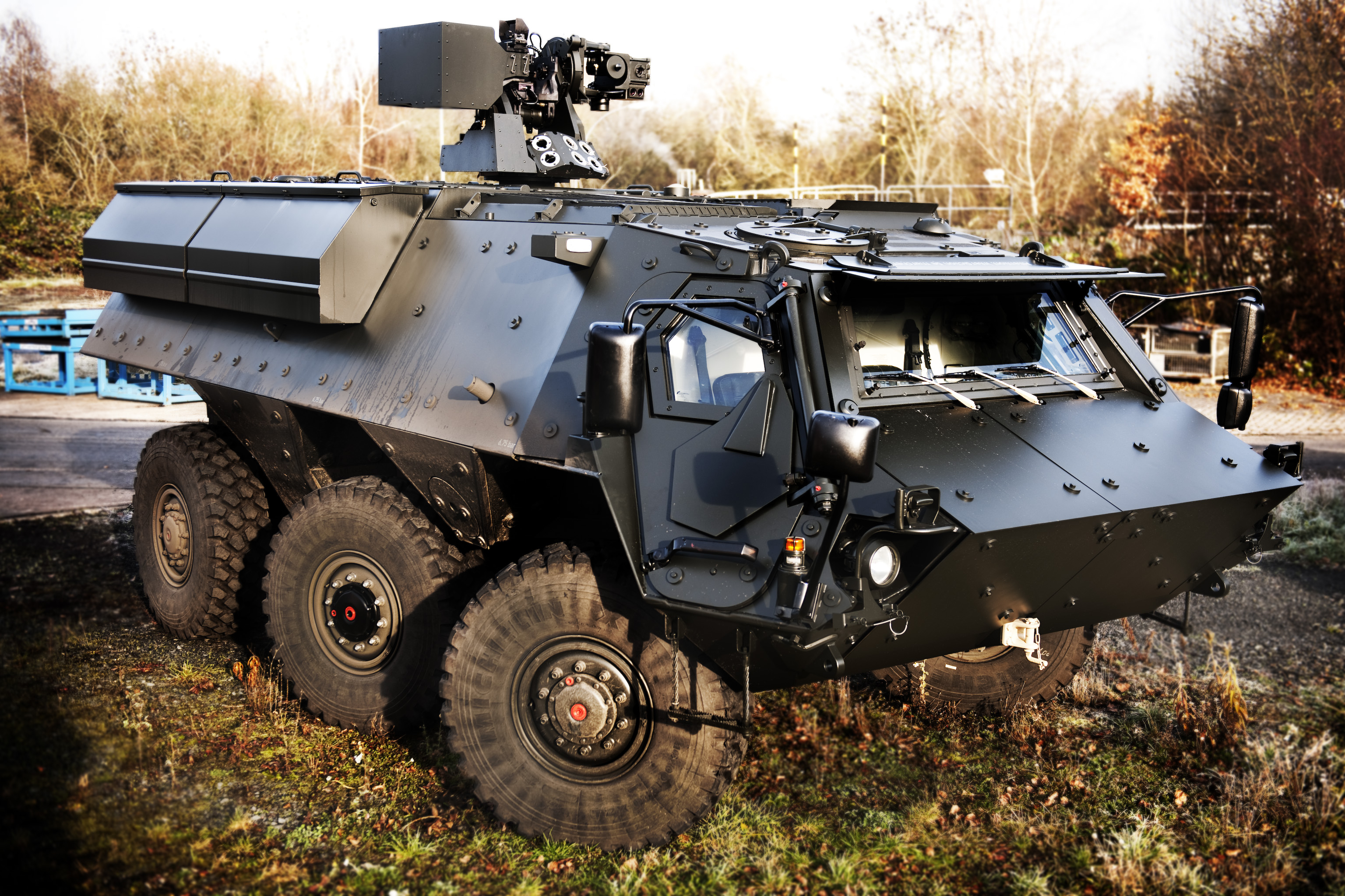 TPz FUCHS 2